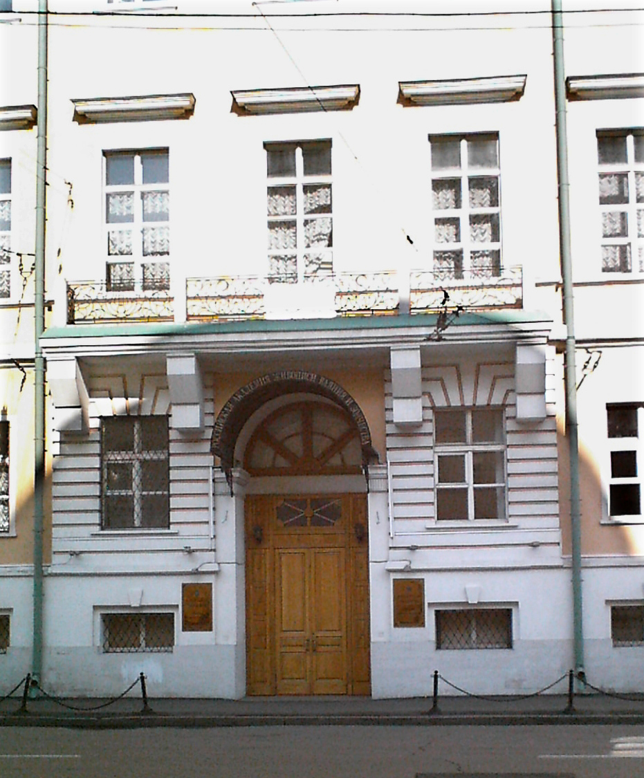 Moscow School (today - Russian Academy) of Painting, Sculpture and Architecture (The main entrance)